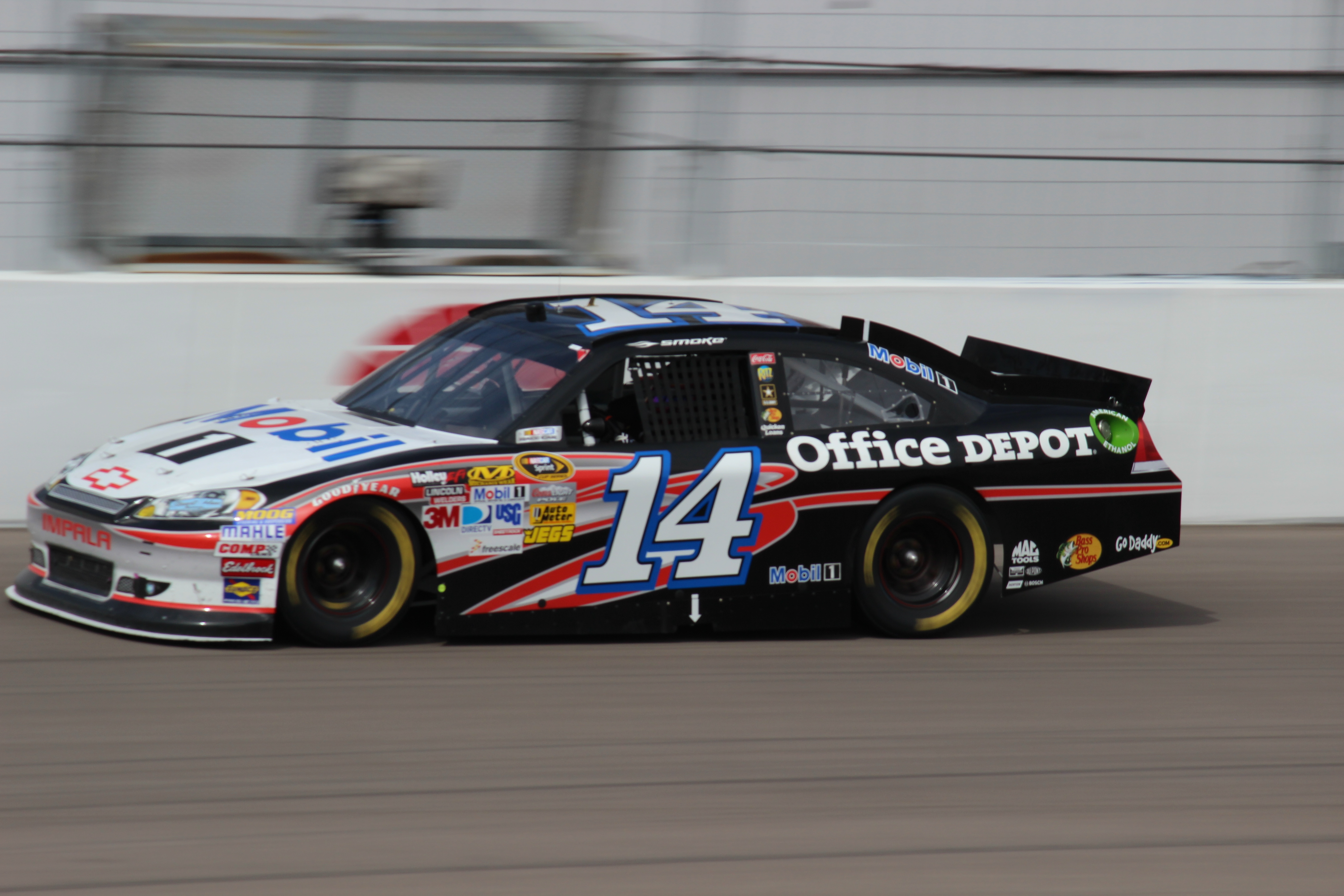 Tony Stewart racing during the 2012 Kobalt Tools 400 at Las Vegas Motor Speedway.